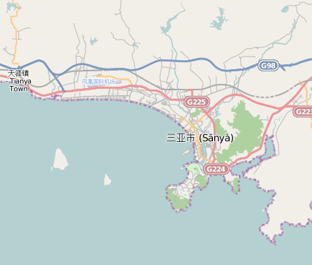 City map of Sanya, on Hainan Island. Located in the South China Sea, within Hainan Province, in far Southeast China. 2013. This map of Sanya, Hainan, China was created from OpenStreetMap project data, collected by the community. This map may be incomplete, and may contain errors. Don't rely solely on it for navigation.